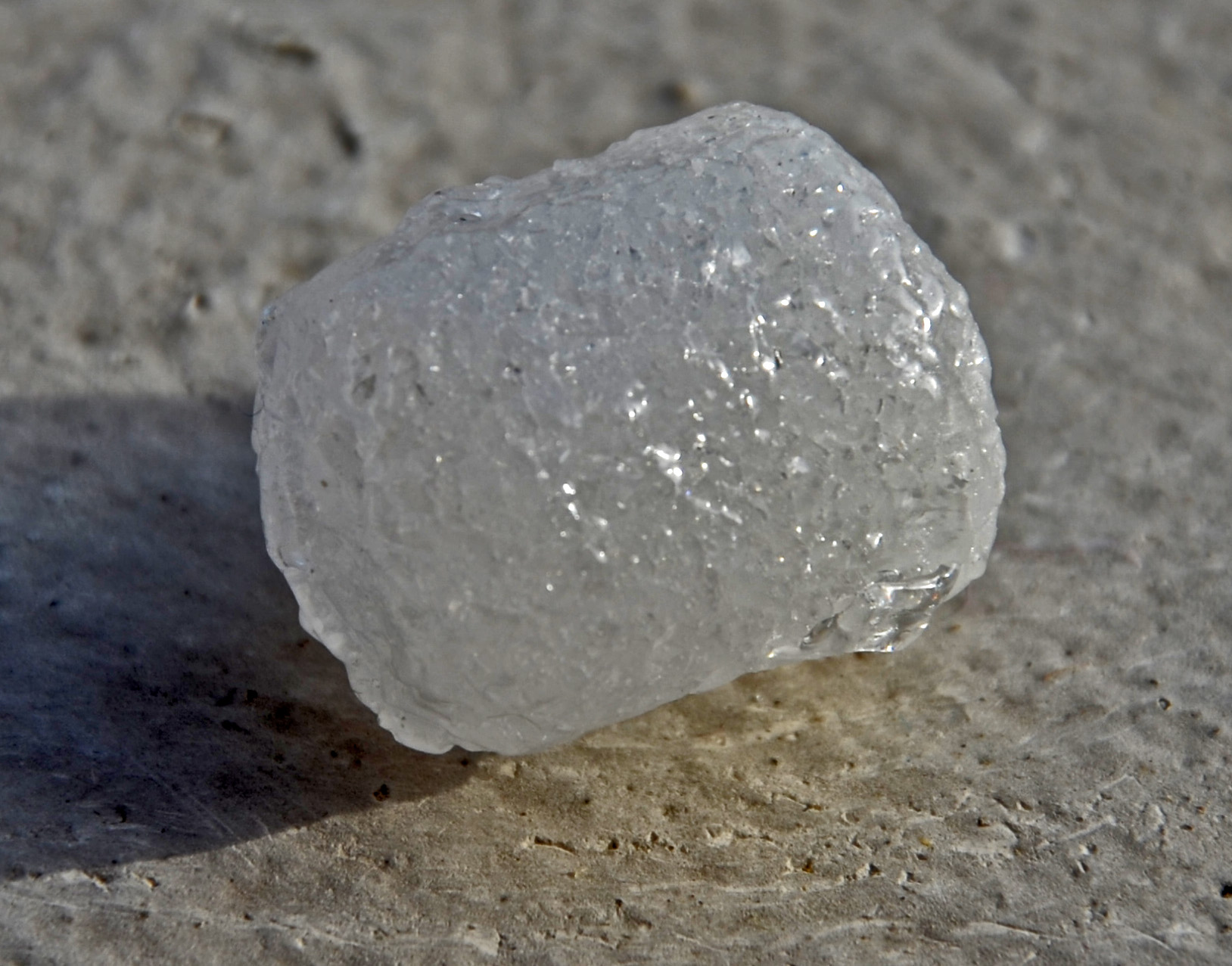 paradichlorobenzene, used as a moth repellent (carcinogenic chemical)